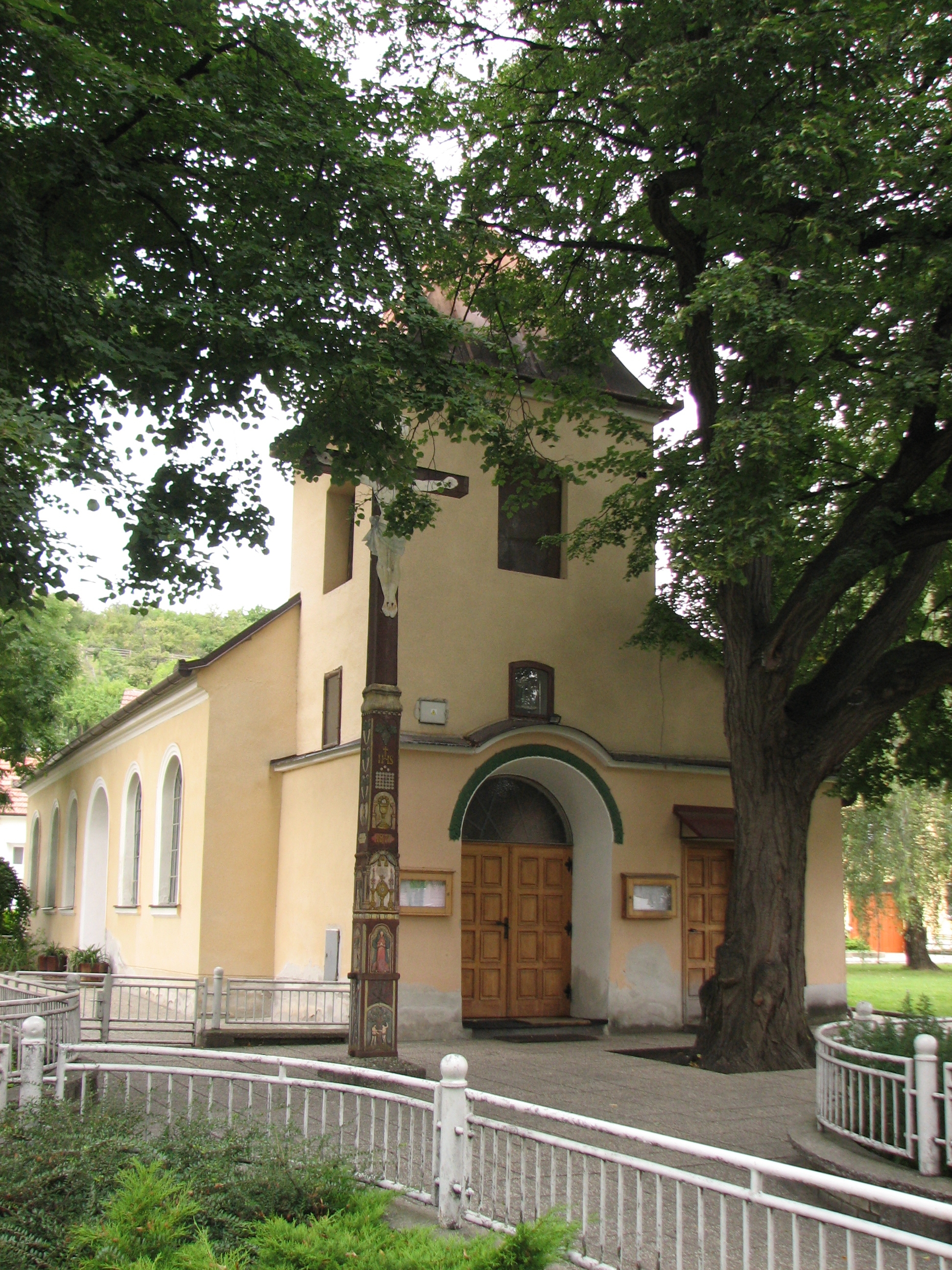 Sobůlky - chapel